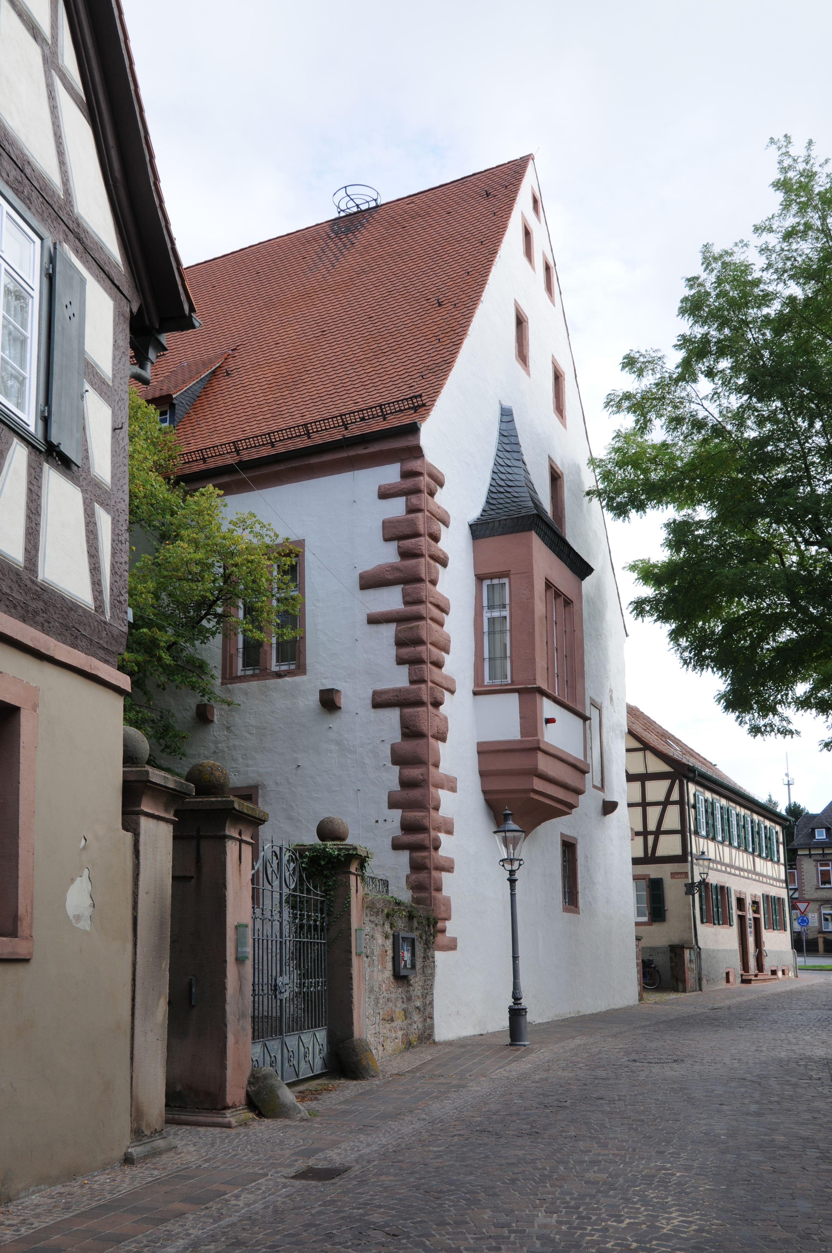 Steinerner Bau ("stony building"), Buchen (Odenwald), Germany, main building of the museum of Buchen